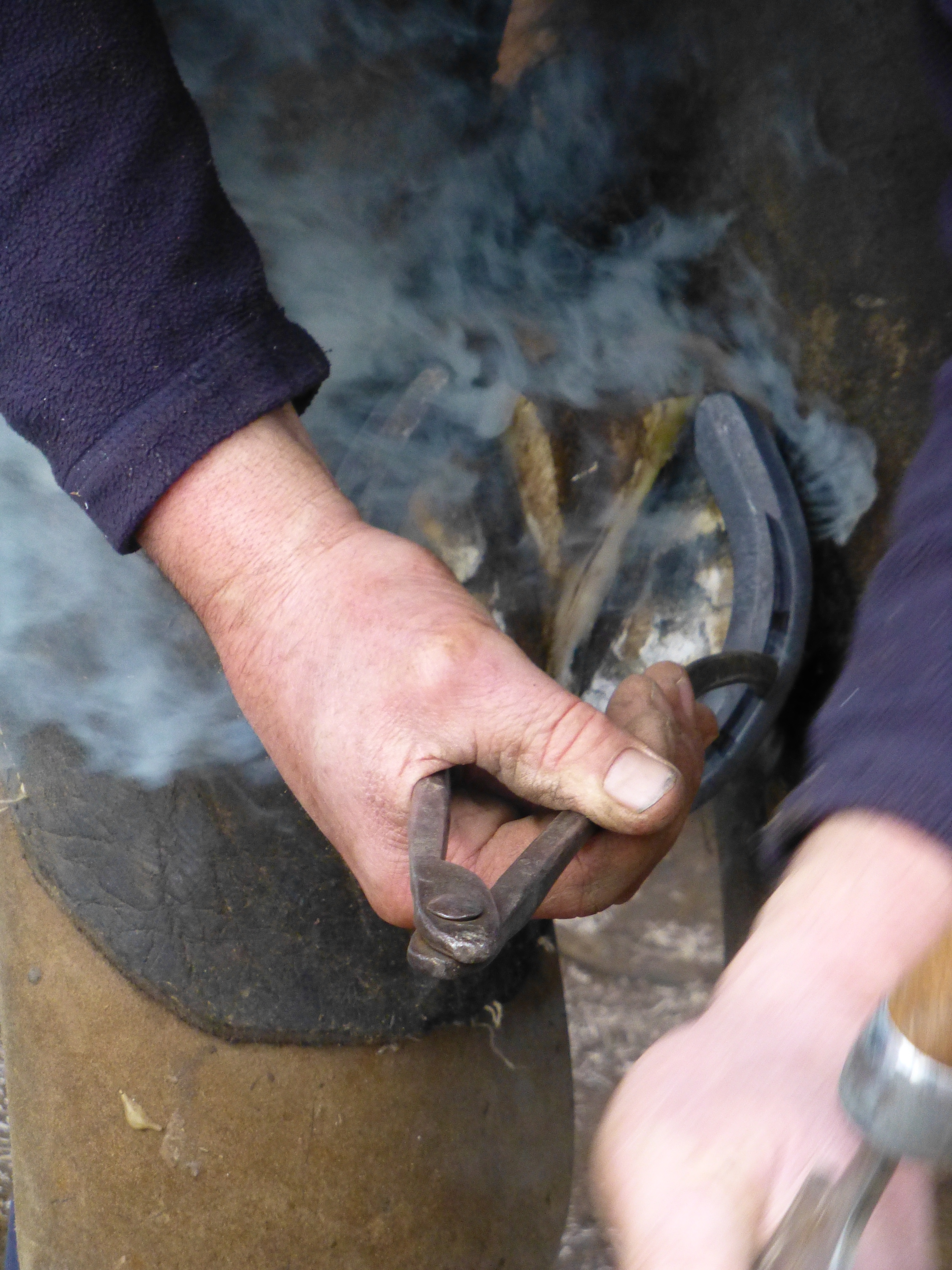 Farrier Jim, KnockBracken, Co. Antrim, Ireland January 2015